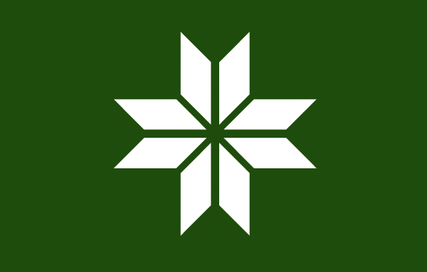 Võro flag